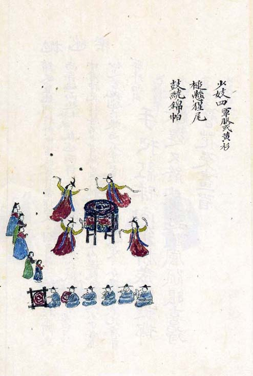 The picture in Gyobang Gayo, a music book depicts mugo, Korean court drum dance.